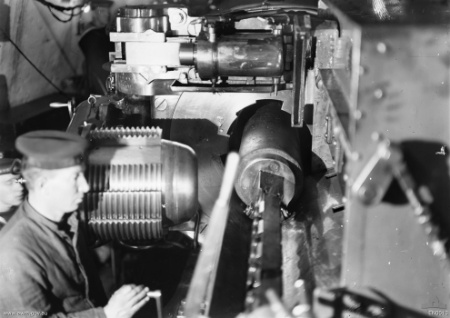 AWM caption : "Scotland, Firth of Forth. Inside a turret on the battle cruiser HMAS Australia. Able Seaman W J Cotter rams home a projectile in a 12 inch gun, watched by Able Seaman T R Field (left)." Comment : note that this is the left gun of a pair, the breech opens to the left, and the Welin breech block is rotated anti-clockwise to lock it. See File:HMAS Australia 12 inch gun loaded AWM EN0015.jpeg for breech closed.